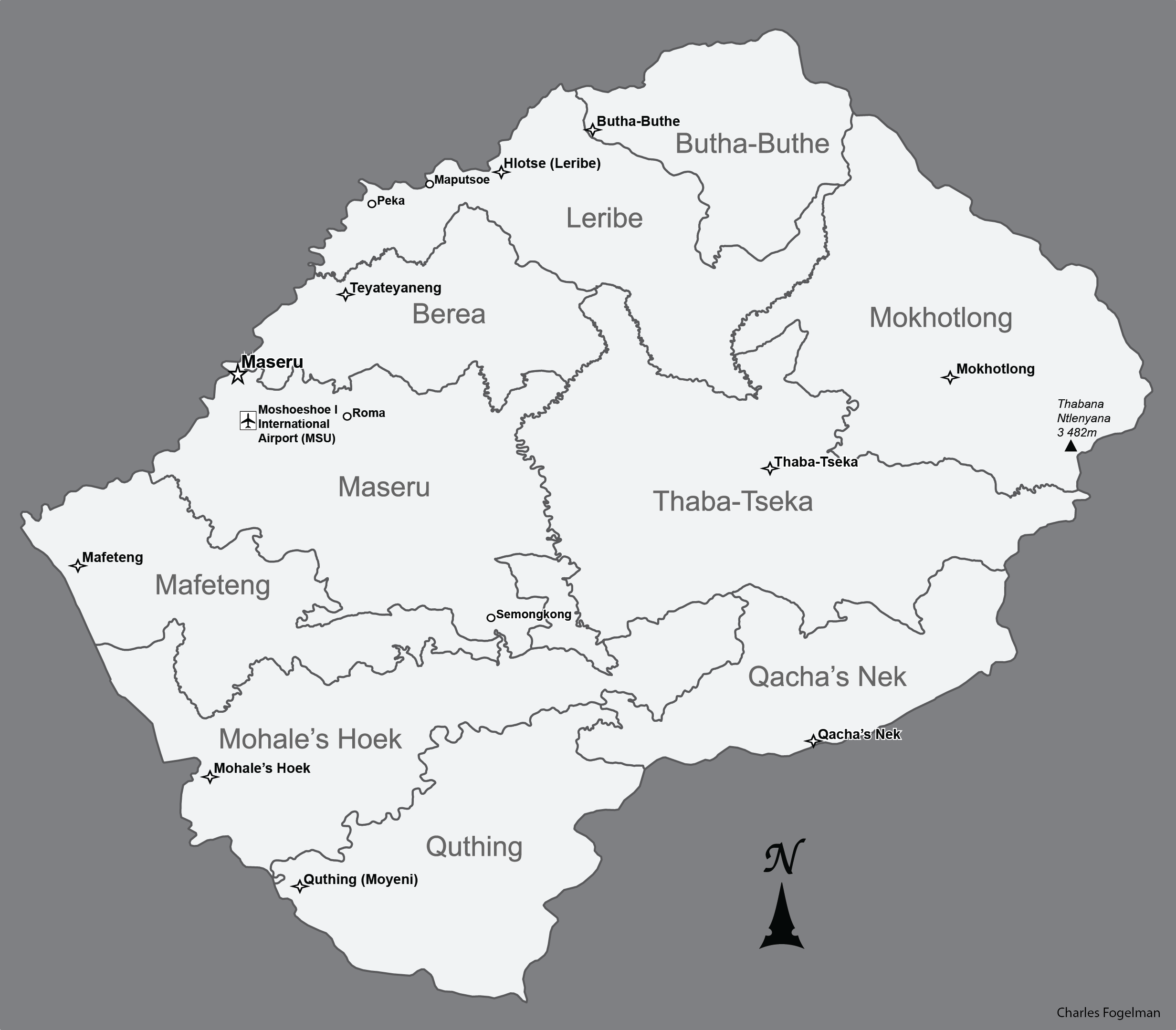 districts and main towns in lesotho